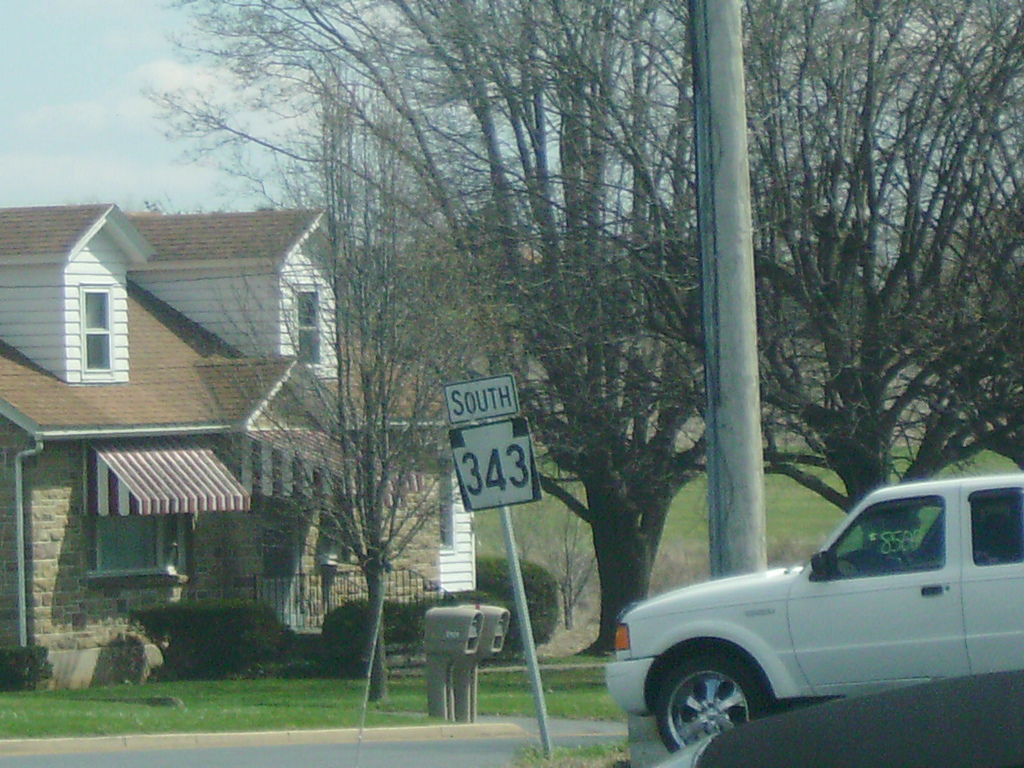 Route 343 heading southbound in Fredericksburg